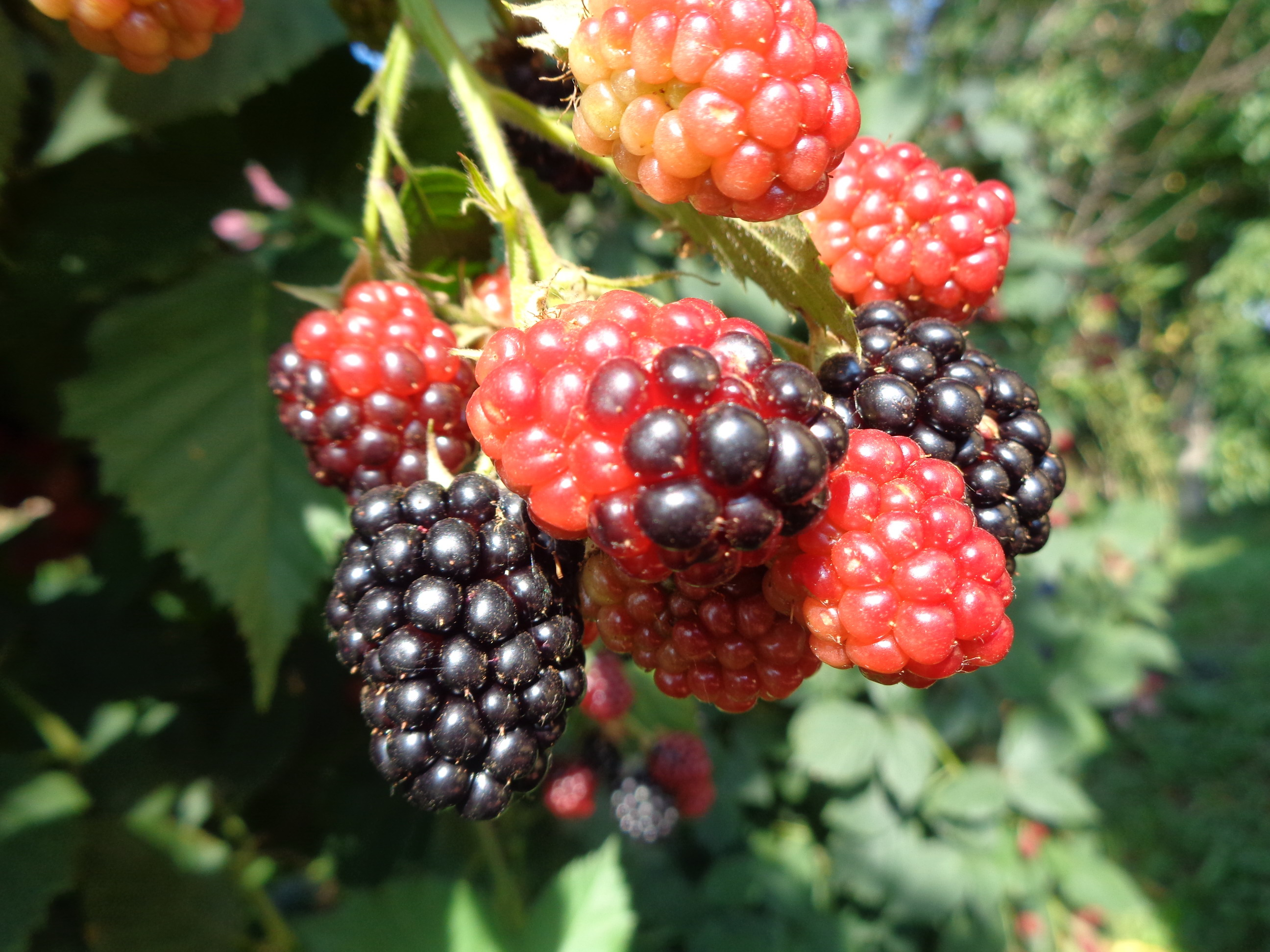 Blackberries, grown in Medjimurje County, northern Croatia, ripening on stems - close-upHrvatski: Kupine, uzgojene u Međimurskoj županiji, sjeverna Hrvatska, dozrijevaju na stabljici - izbliza